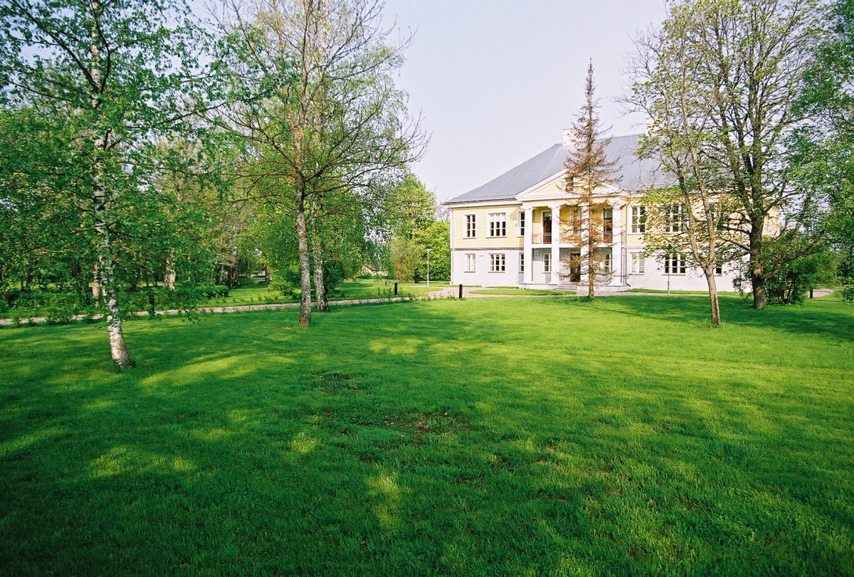 Penijõe Manor, Matsalu National Park, Lääne County, Estonia